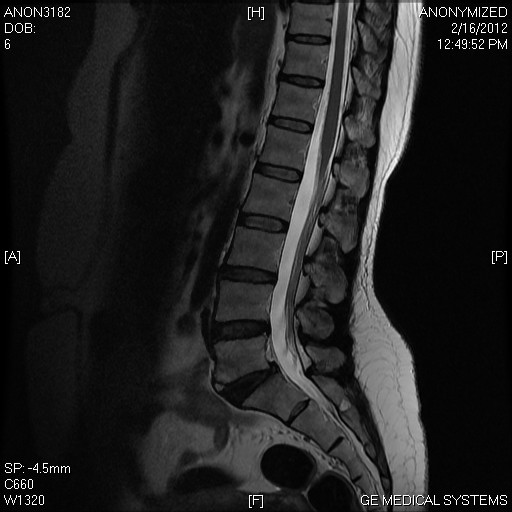 T2 sagittal image done in a 1.5 T MRI Scanner shows Limbus Vertebra at L5 anterior level.